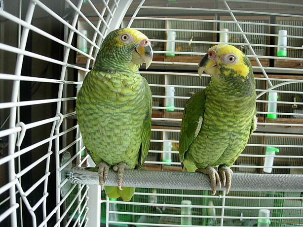 Yellow-faced Parrot; two in a cage.